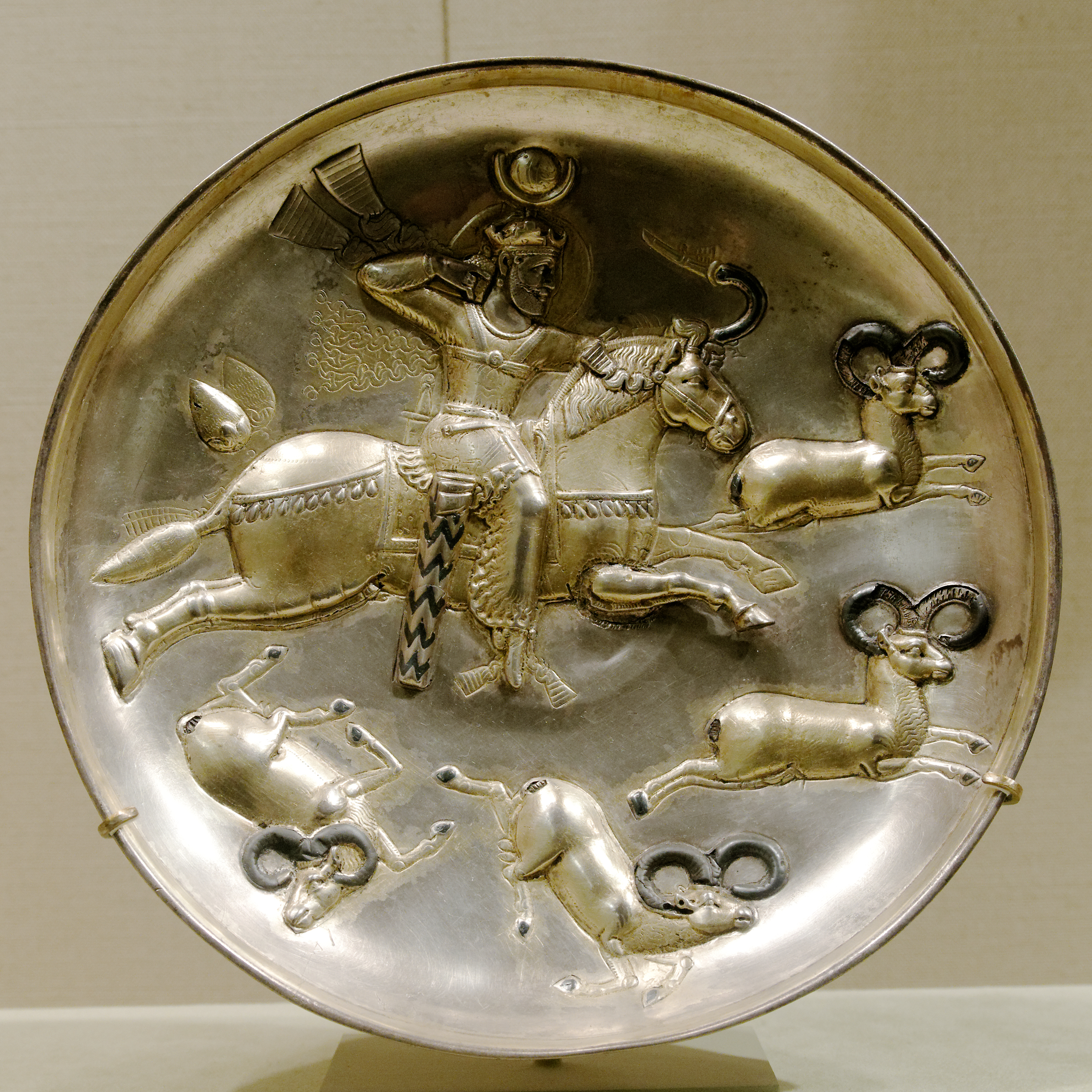 Plate with the king hunting rams, Sasanian artwork.